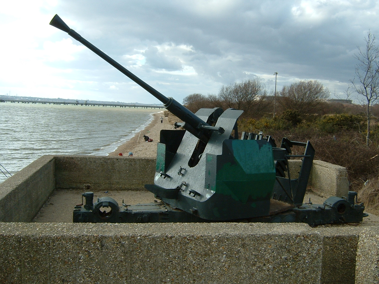 Non-operational WWII Anti Aircraft position previously used to protect the fuel terminal at Hamble, which can just be seen in the background. This site has been re-created to serve as a historical monument.